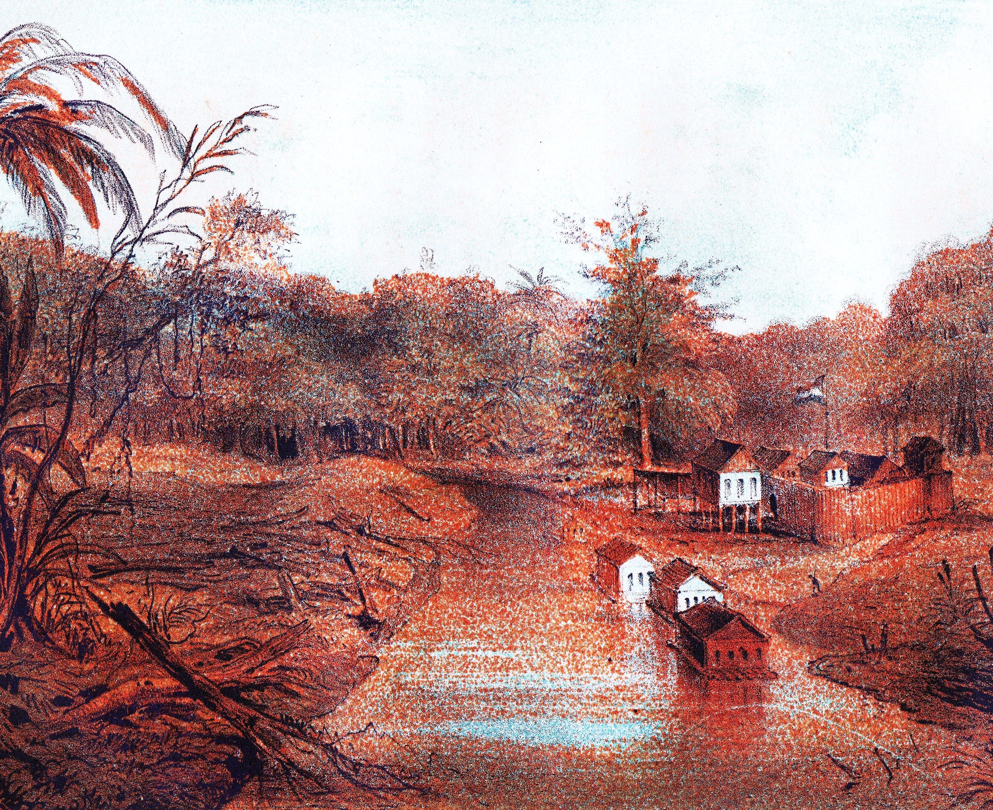 Benting aan de Mantallat